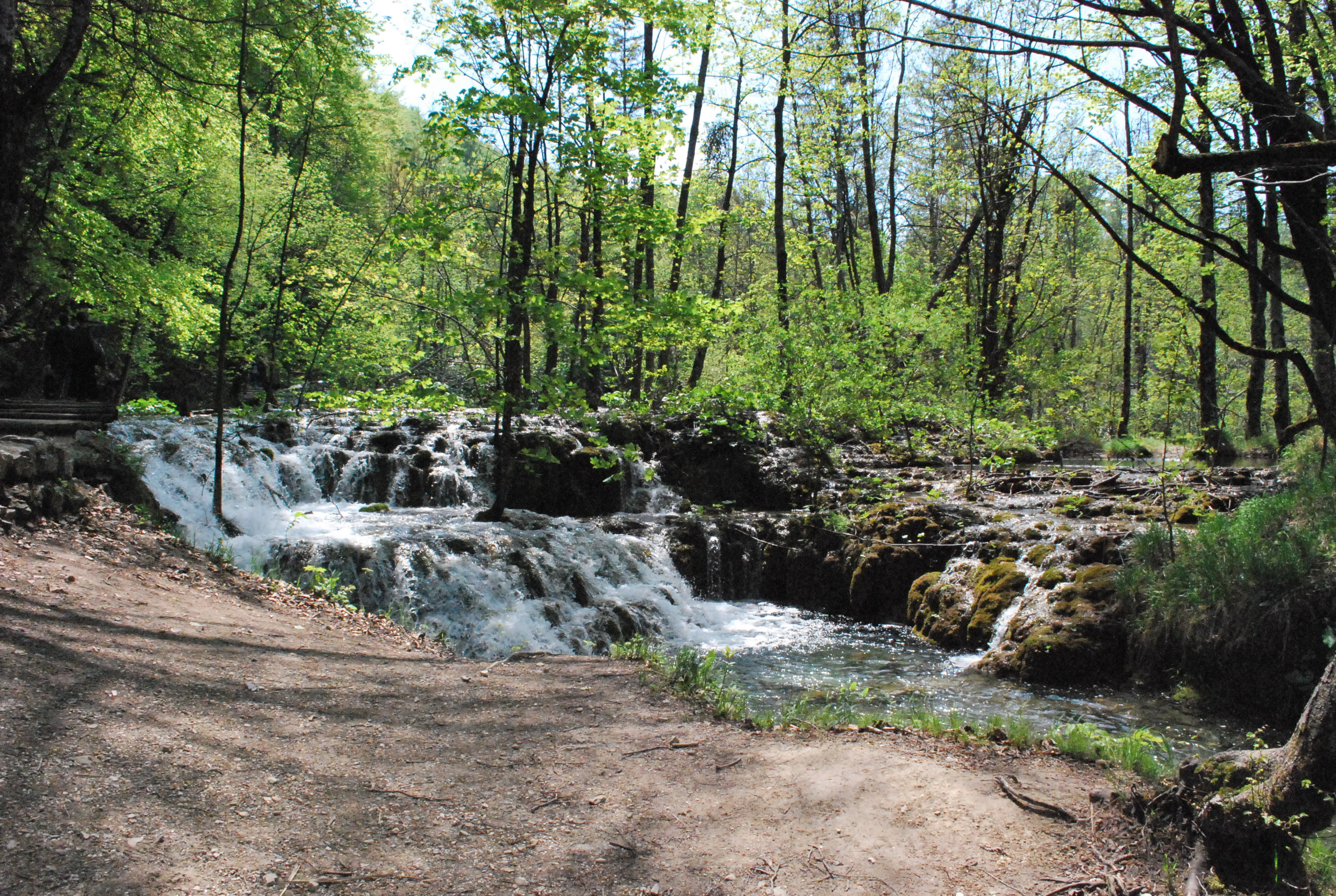 travertine karst terraces, "Lakes of Plitviča", Lika, Croatia.